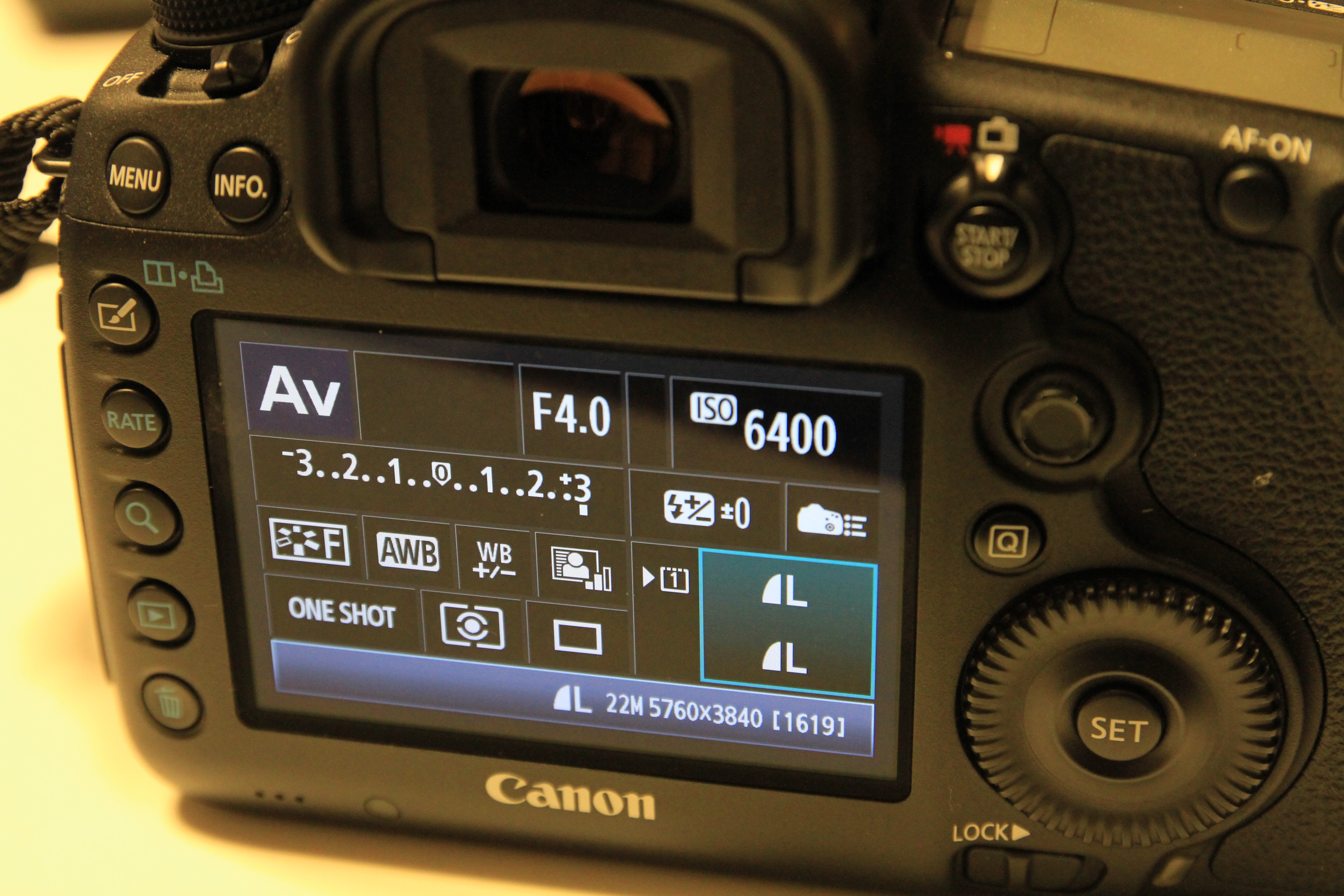 Canon EOS 5D Mark III, file saving menu